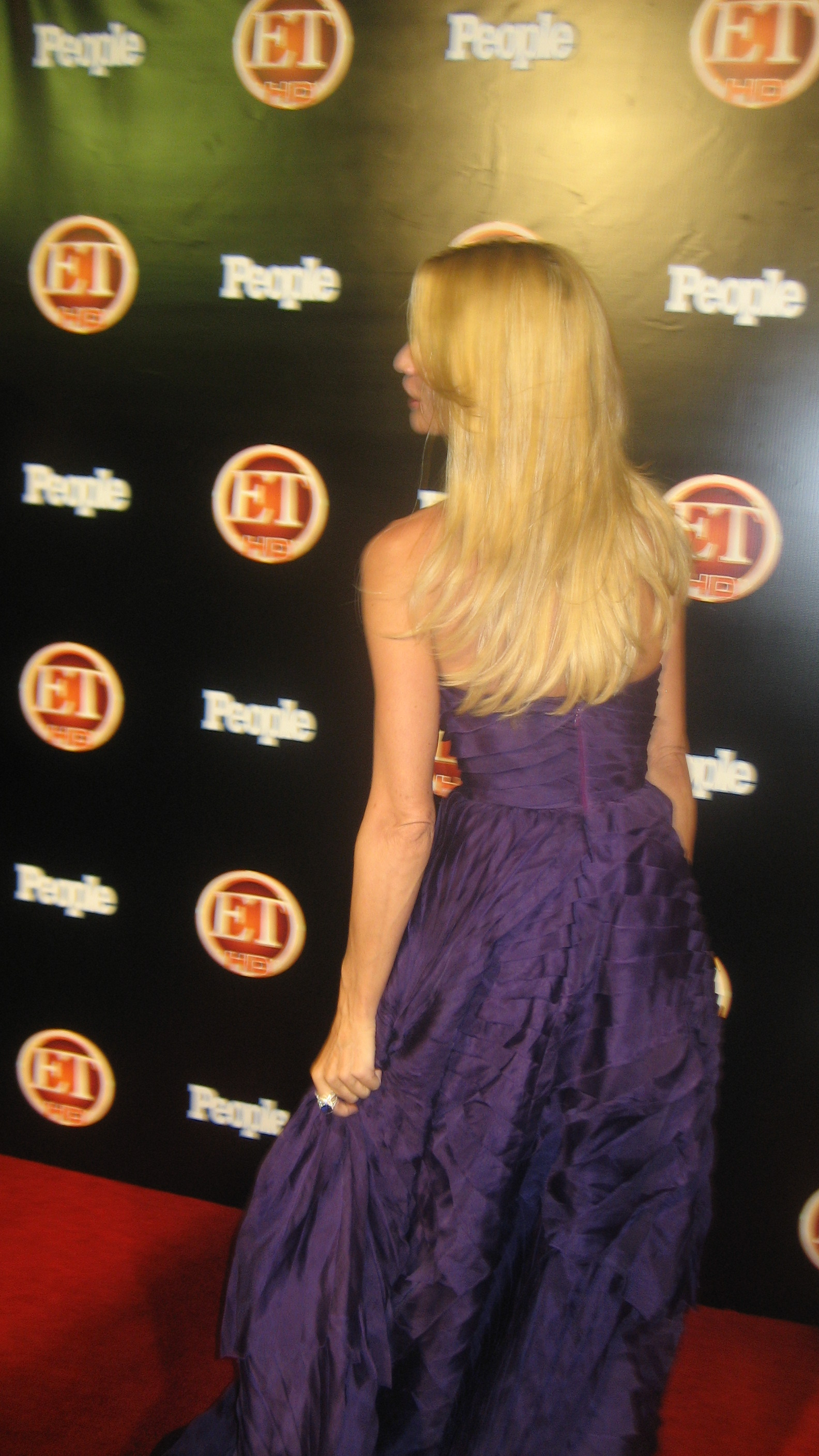 Actress Nicollette Sheridan at the 60th Primetime Emmy Awards' post-party organised by the television network E! Entertainment Television at the Walt Disney Concert Hall on September 21st, 2008.